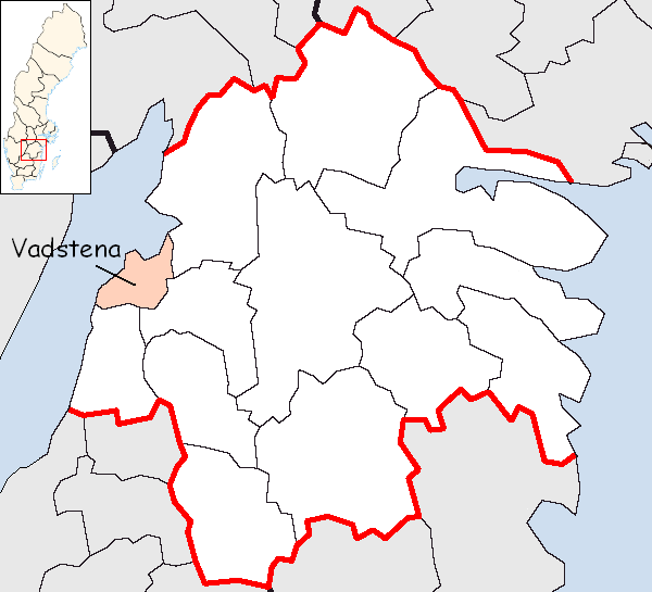 Vadstena Municipality in Östergötland County Designed by me. Mere outlines are a PD source from